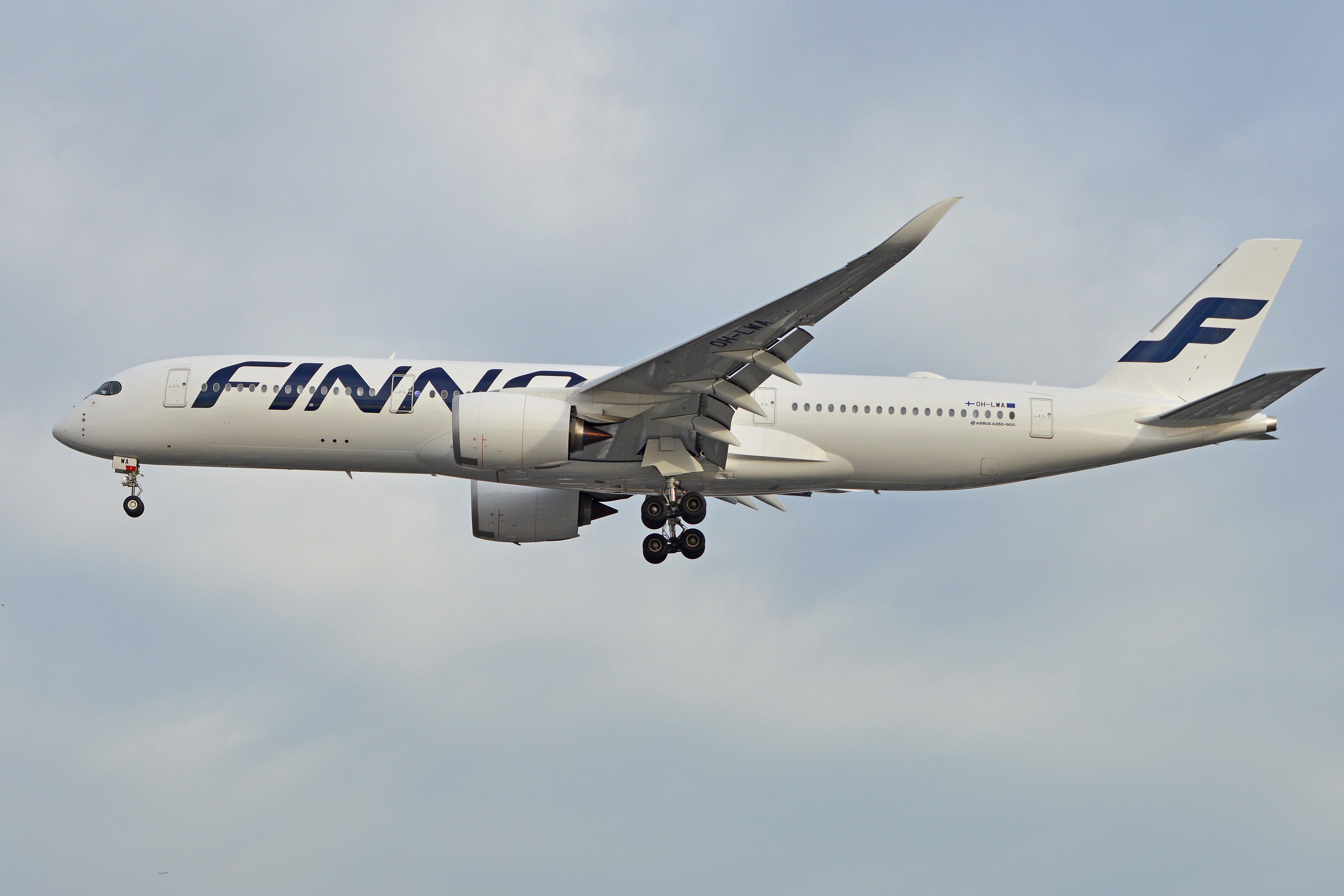 An Airbus A350-941 aircraft (OH-LWA; c/n 18) of Finnair arriving to London Heathrow Airport on flight AY831 from Helsinki on 25 October 2015. The aircraft was built in 2015 and delivered to Finnair on 7 October.